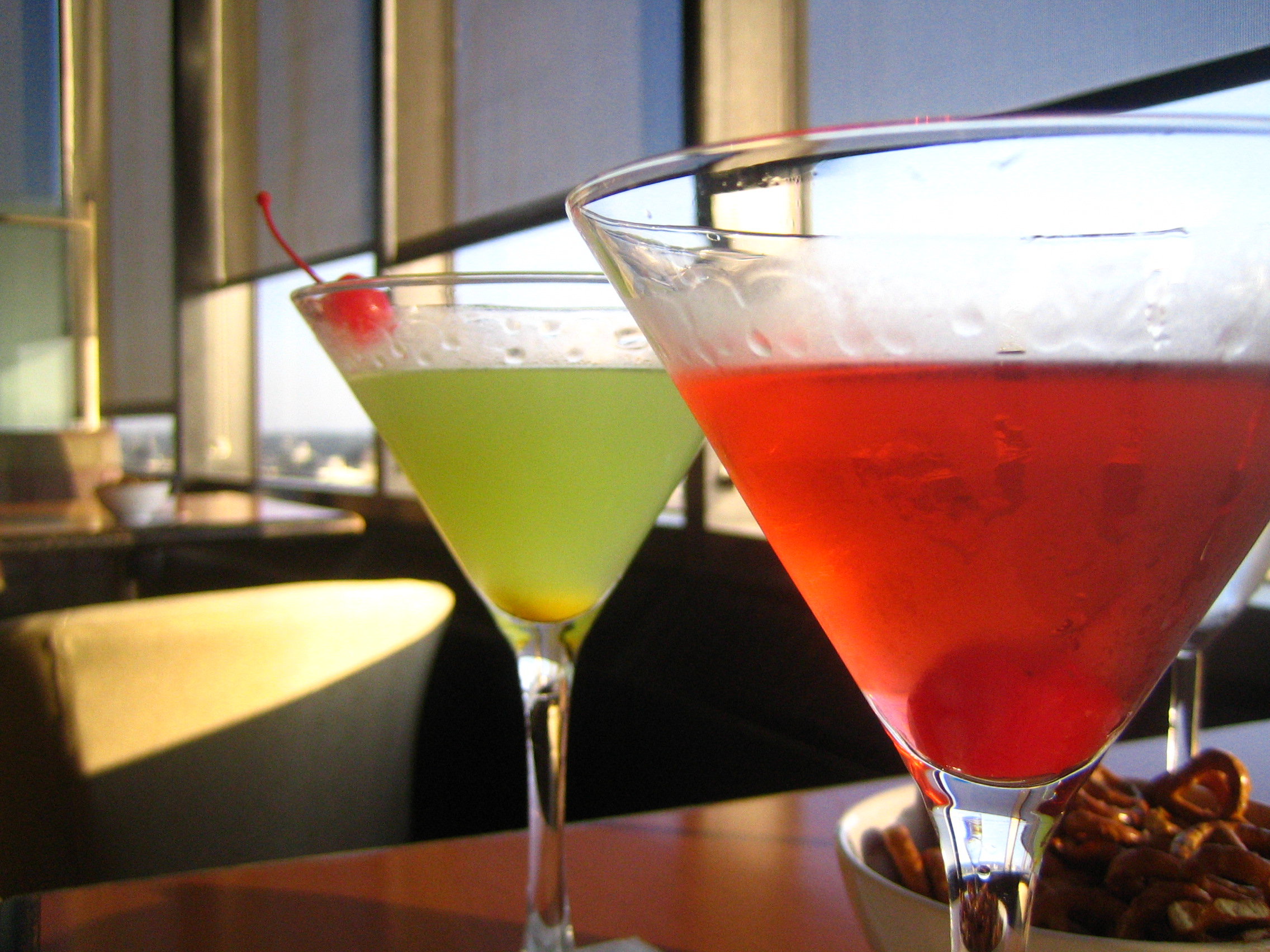 Cloud 9 - round 2 (Vancouver, Canada, BC, British Columbia, 2006, travel, hotel, robson, cloud 9, bar, restaurant, empire landmark, lounge, level 42, drinks, booze, liquor, pretzels, cherry, cherries)